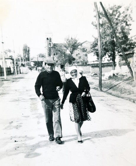 A couple from Sekirovo village in the 1960s